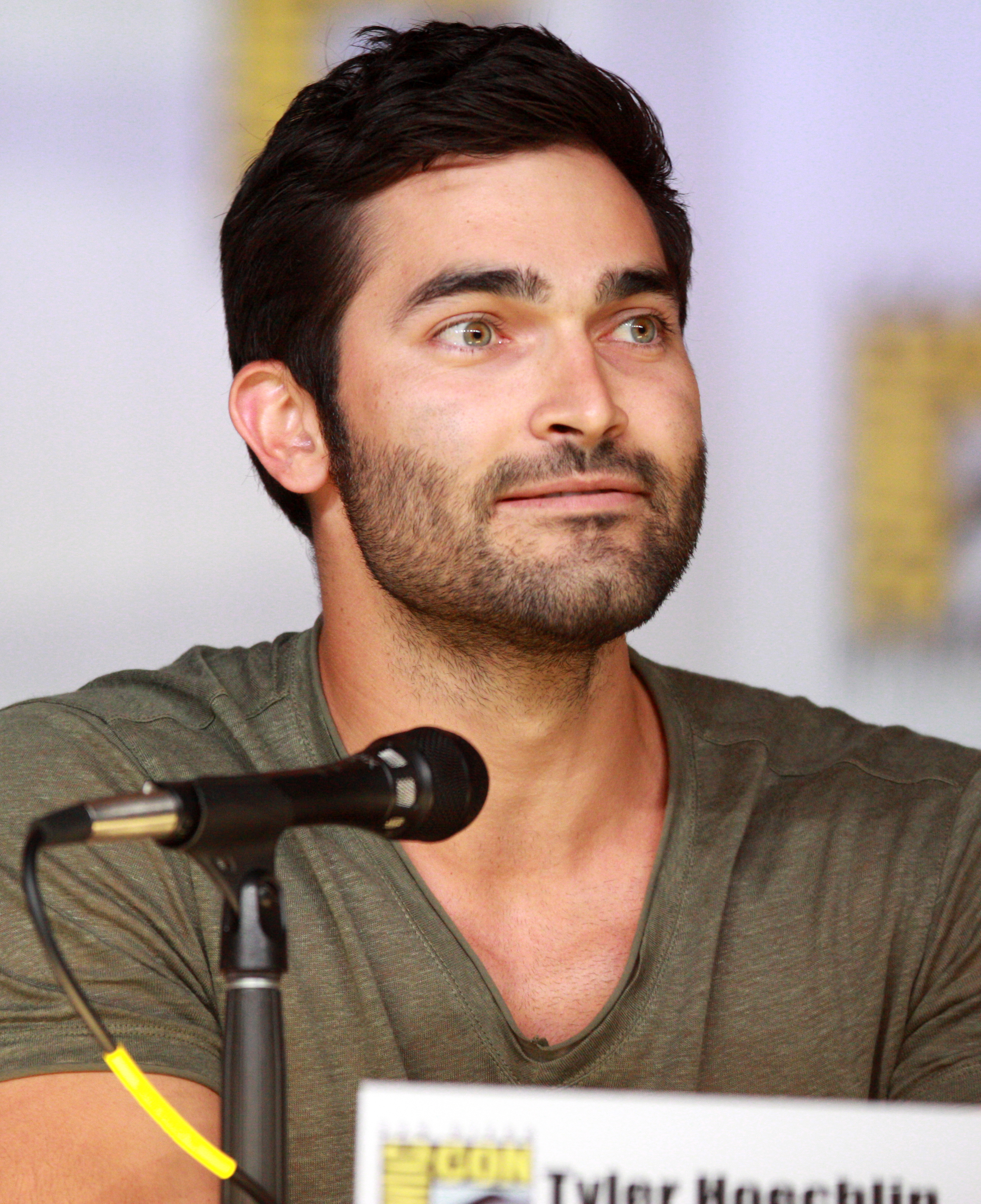 Tyler Hoechlin at the 2013 San Diego Comic Con International in San Diego, California.